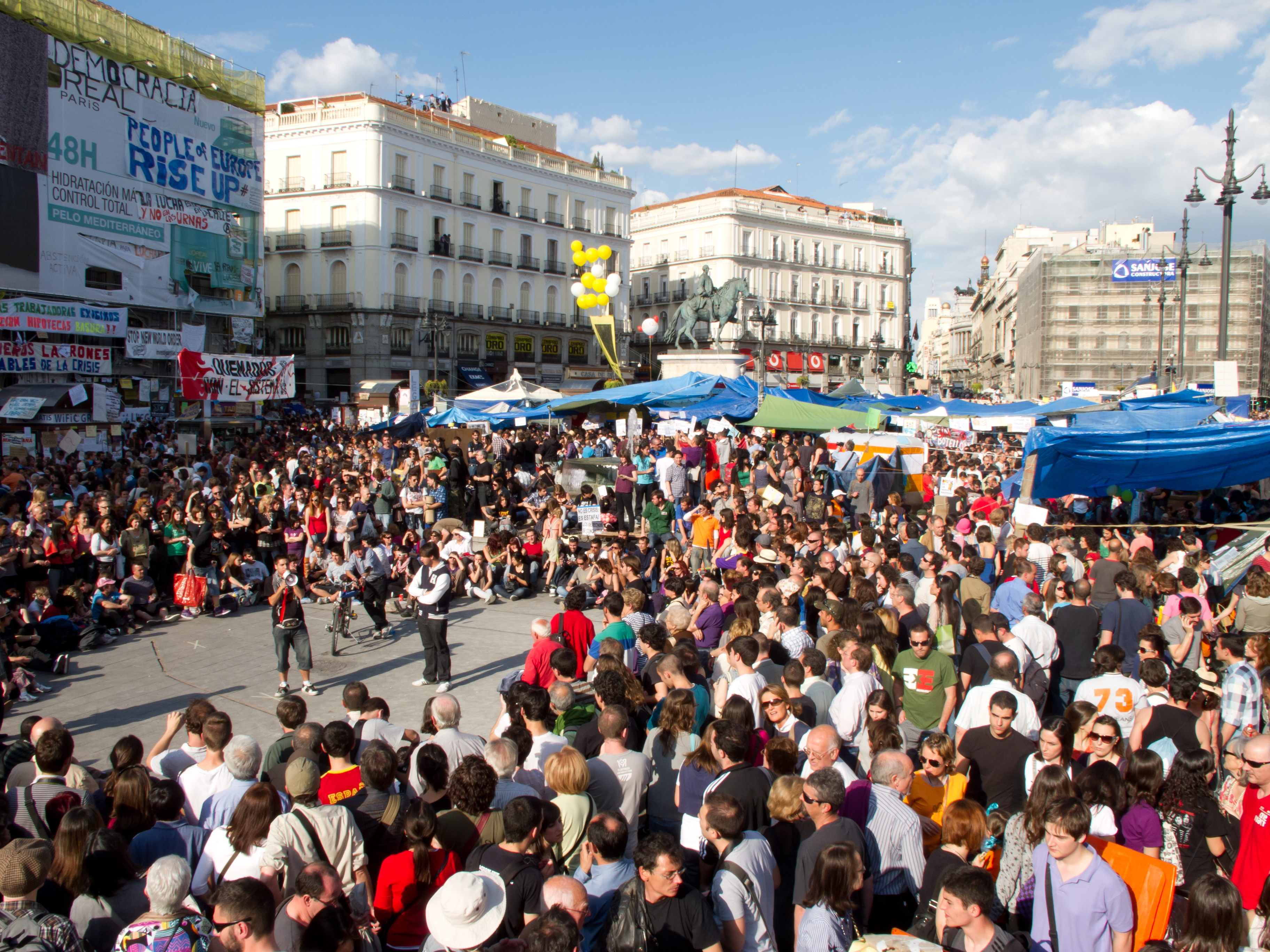 Puerta del Sol (Sun Sq.), Madrid (Spanish Protests May 2011).